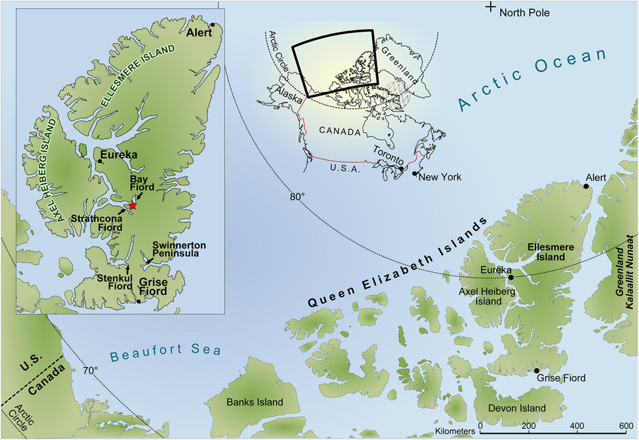 Important sites of the Margaret Formation, Ellesmere Island, Canada